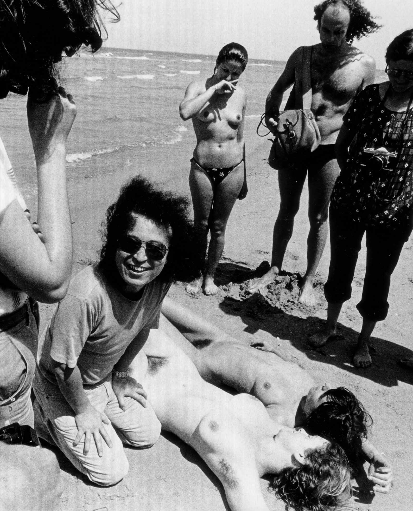 Japanese star photographer Kishin Shinoyama and two female models, Southern France, 1975. The photograph was taken during a workshop of '6èmes Rencontres Internationales de la Photographie', Arles, 1975, on a nude beach near 'Les Saintes Maries de la Mer'. Nikon 24mm lens. Standing, right side, with camera: US photographer Ralph Gibson.